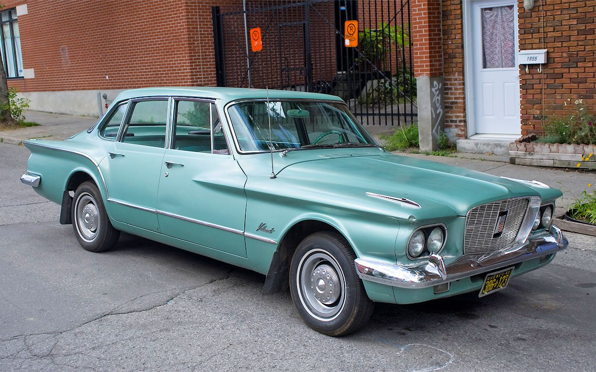 1960 Plymouth Valiant automobile